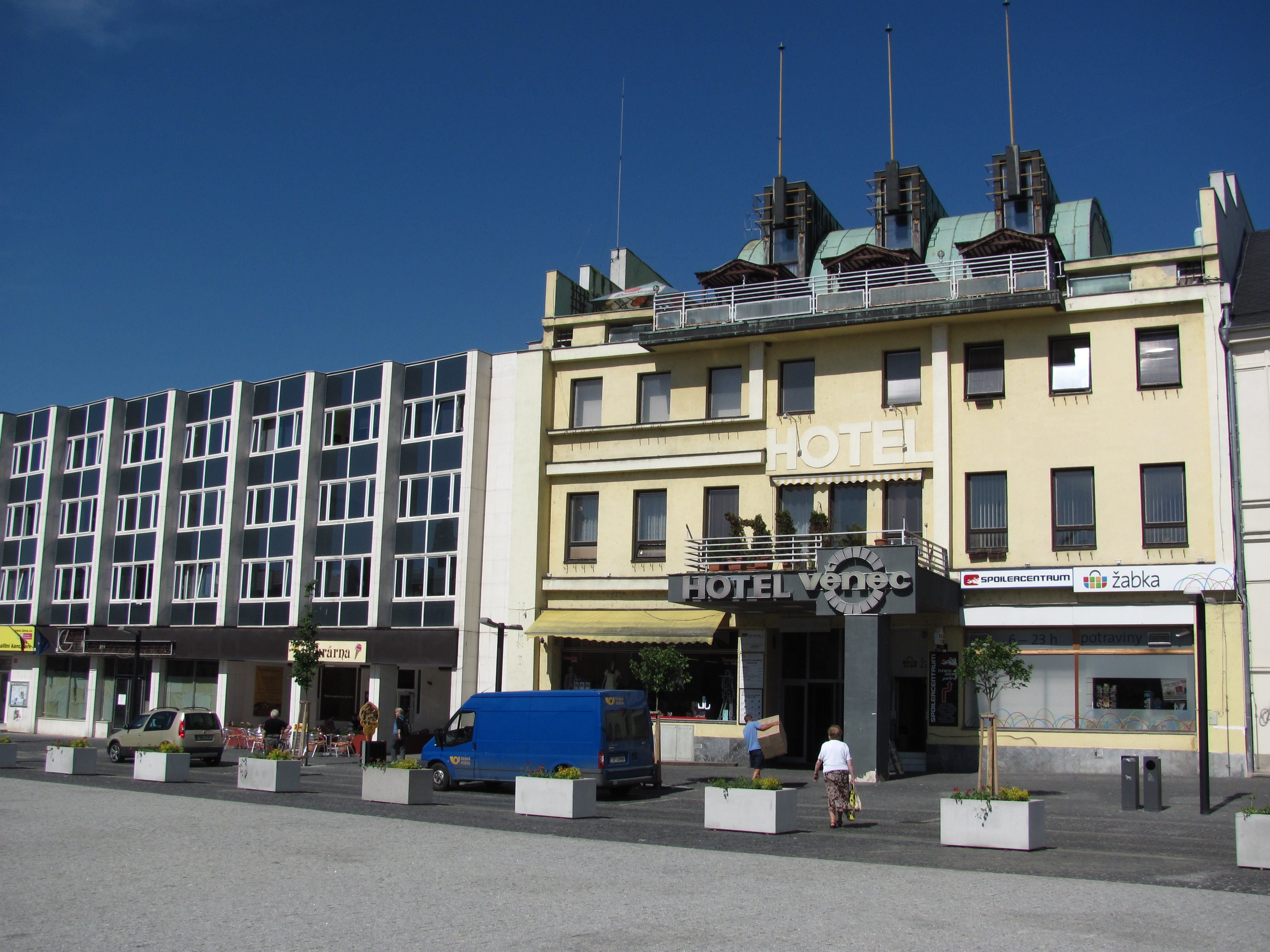 Grant Hotel Věnec in Mladá Boleslav (on the right). Redesigned in 1920s by Jiří Kroha.